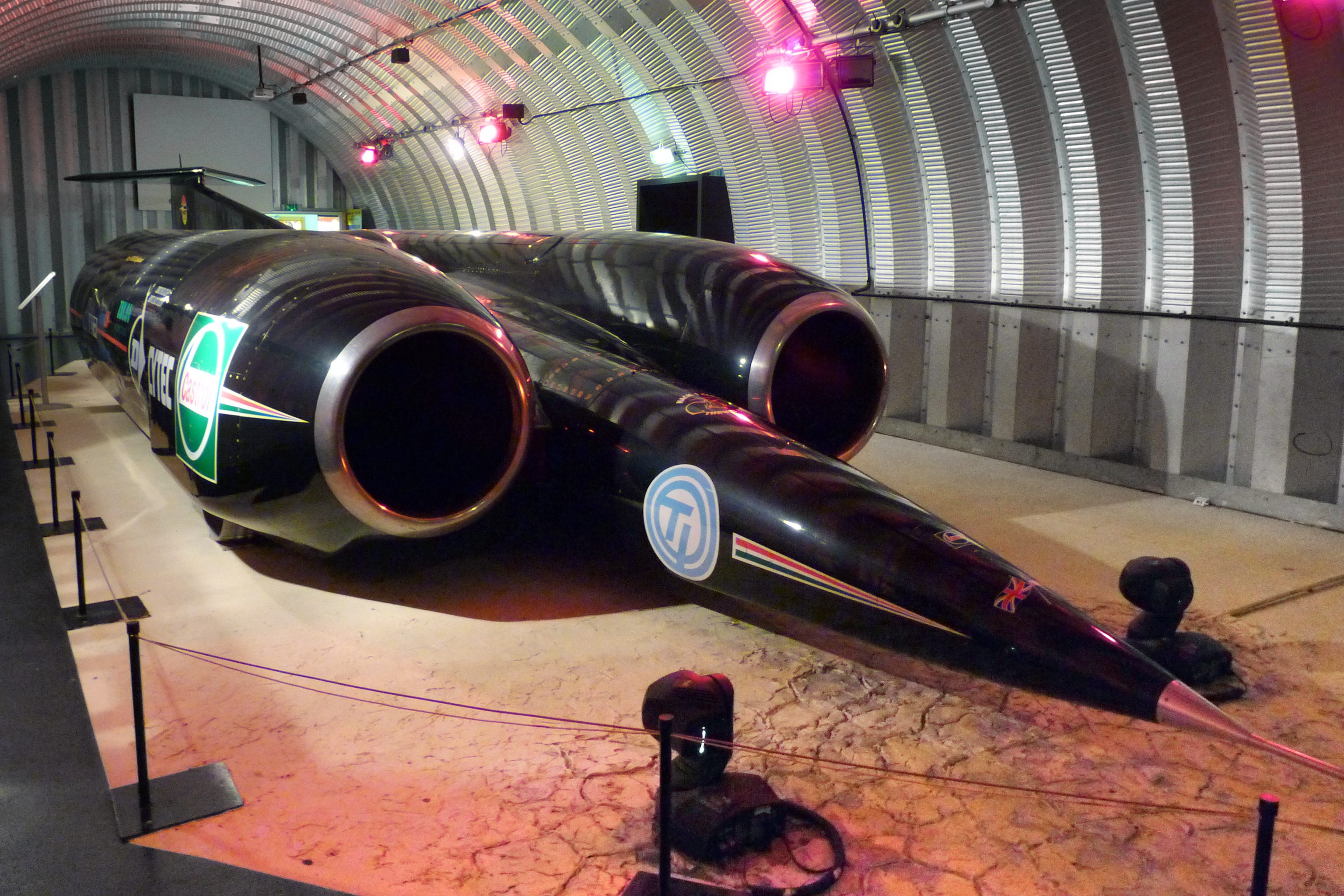 Front view of ThrustSSC at Coventry Transport Museum.